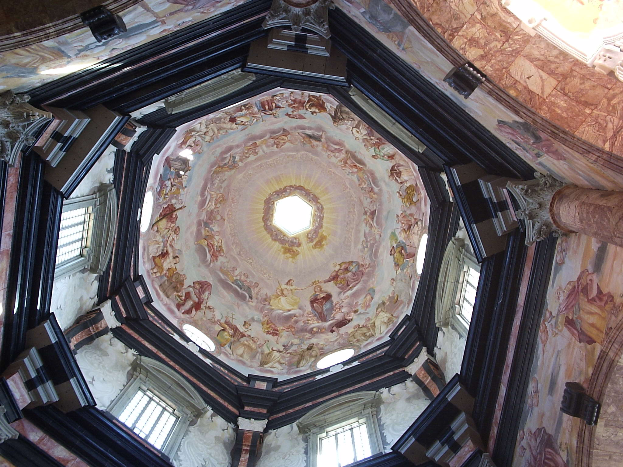 Pažaislis monastery church, Kaunas, Lithuania.